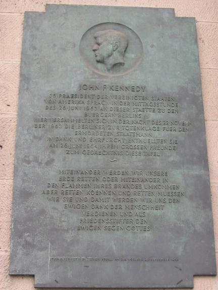 memorial plaque to Kennedys Speech in front of Rathaus Berlin-Schöneberg